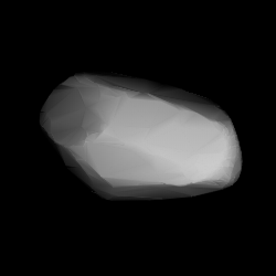 3D convex shape model of 812 Adele, computed using light curve inversion techniques. J. Hanuš, J. Ďurech, M. Brož, B. D. Warner (June 2011). "A study of asteroid pole-latitude distribution based on an extended set of shape models derived by the lightcurve inversion method". Astronomy and Astrophysics 530: A134. ISSN 0004-6361. arXiv